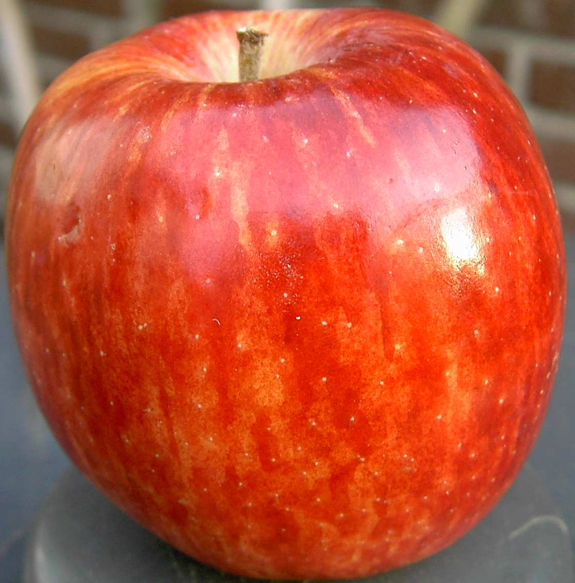 Apple red delicius stalk